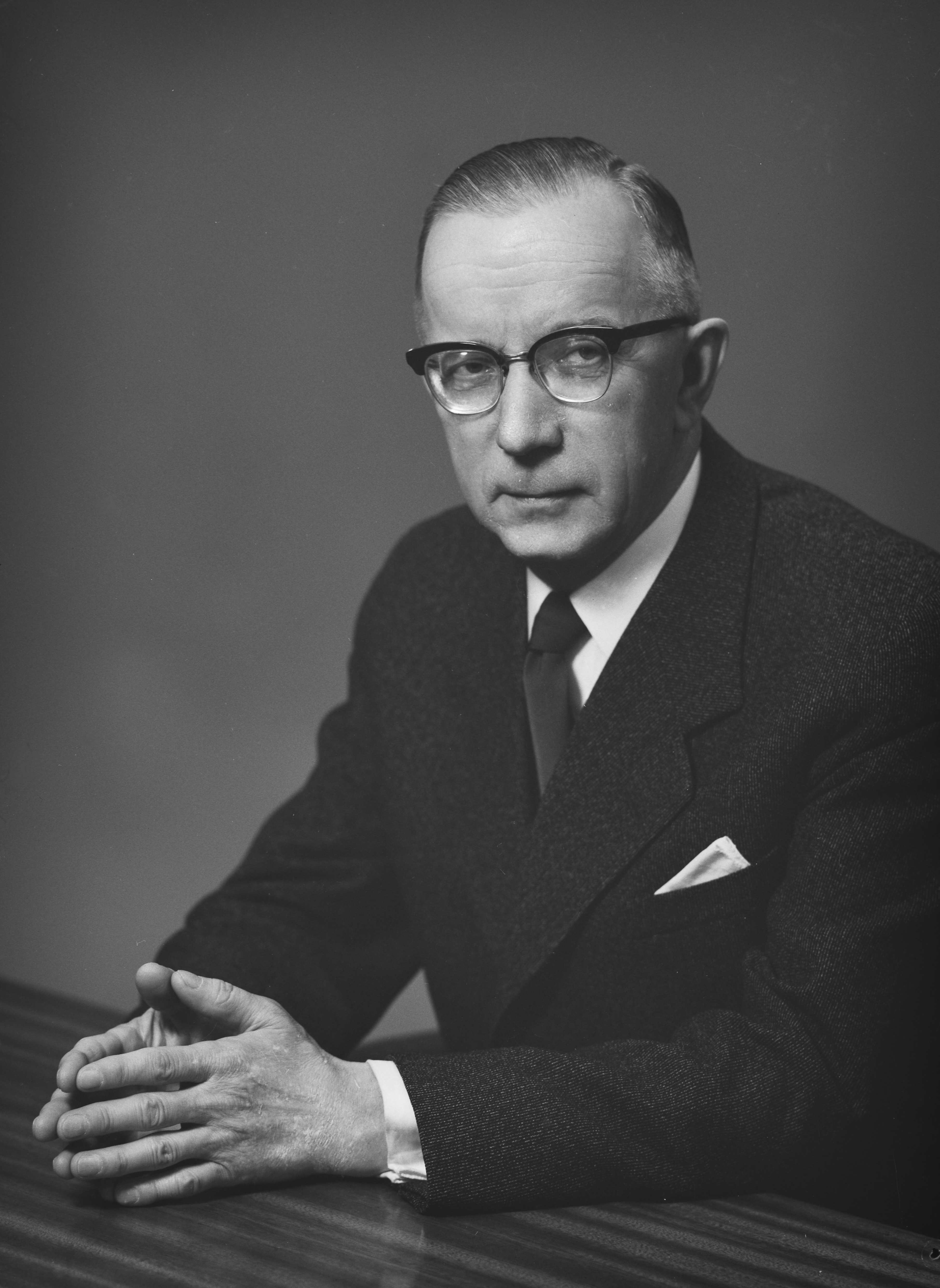 Photograph of the Finnish politician Lauri Riikonen (1900–1973).